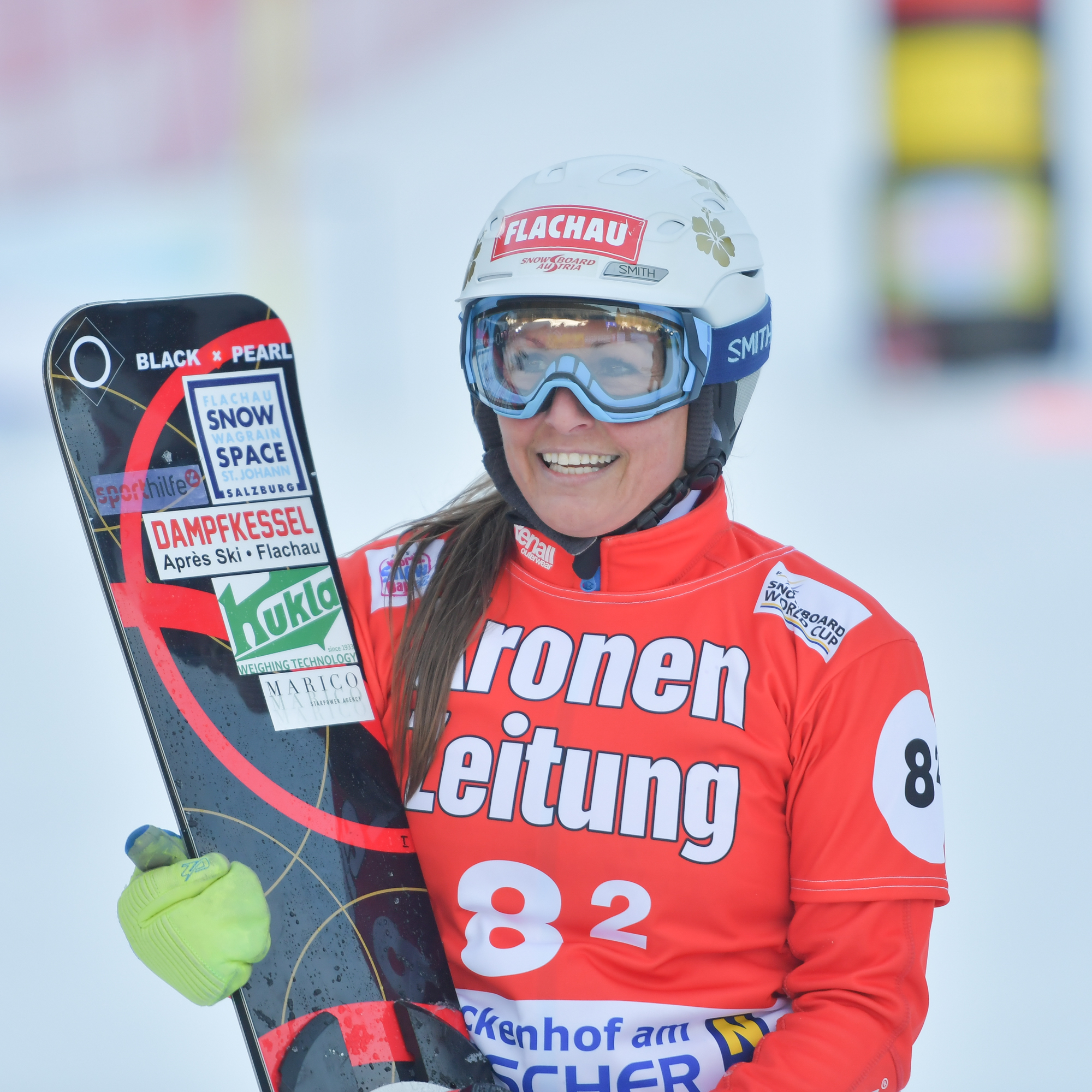 6/01/18, Lackenhof, Austria, Sport, winter sports, FIS Snowboard World Cup - Mixed-Team. Image shows Claudia RIEGLER (AUT).